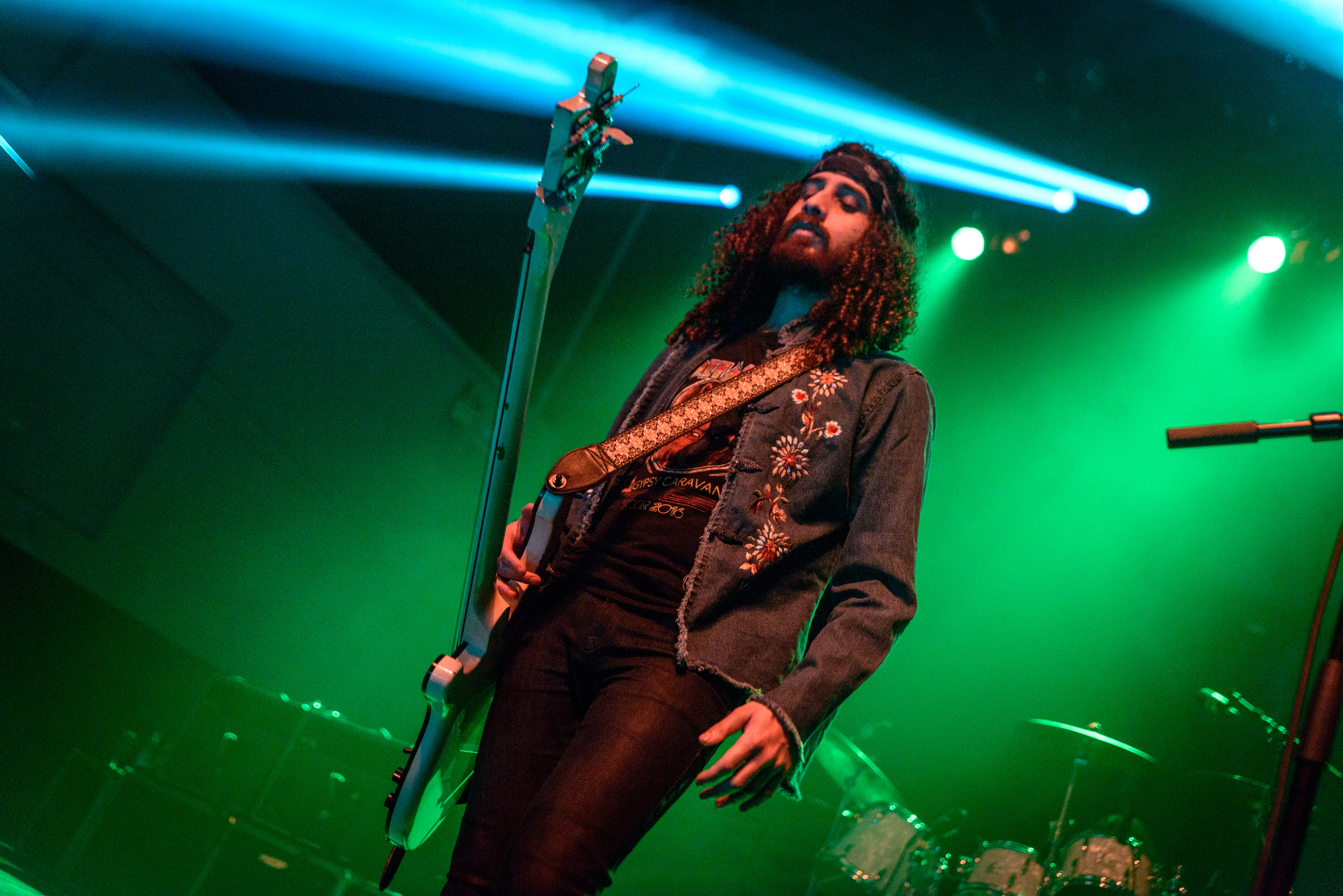 Wolfmother Live @ Munich 2016